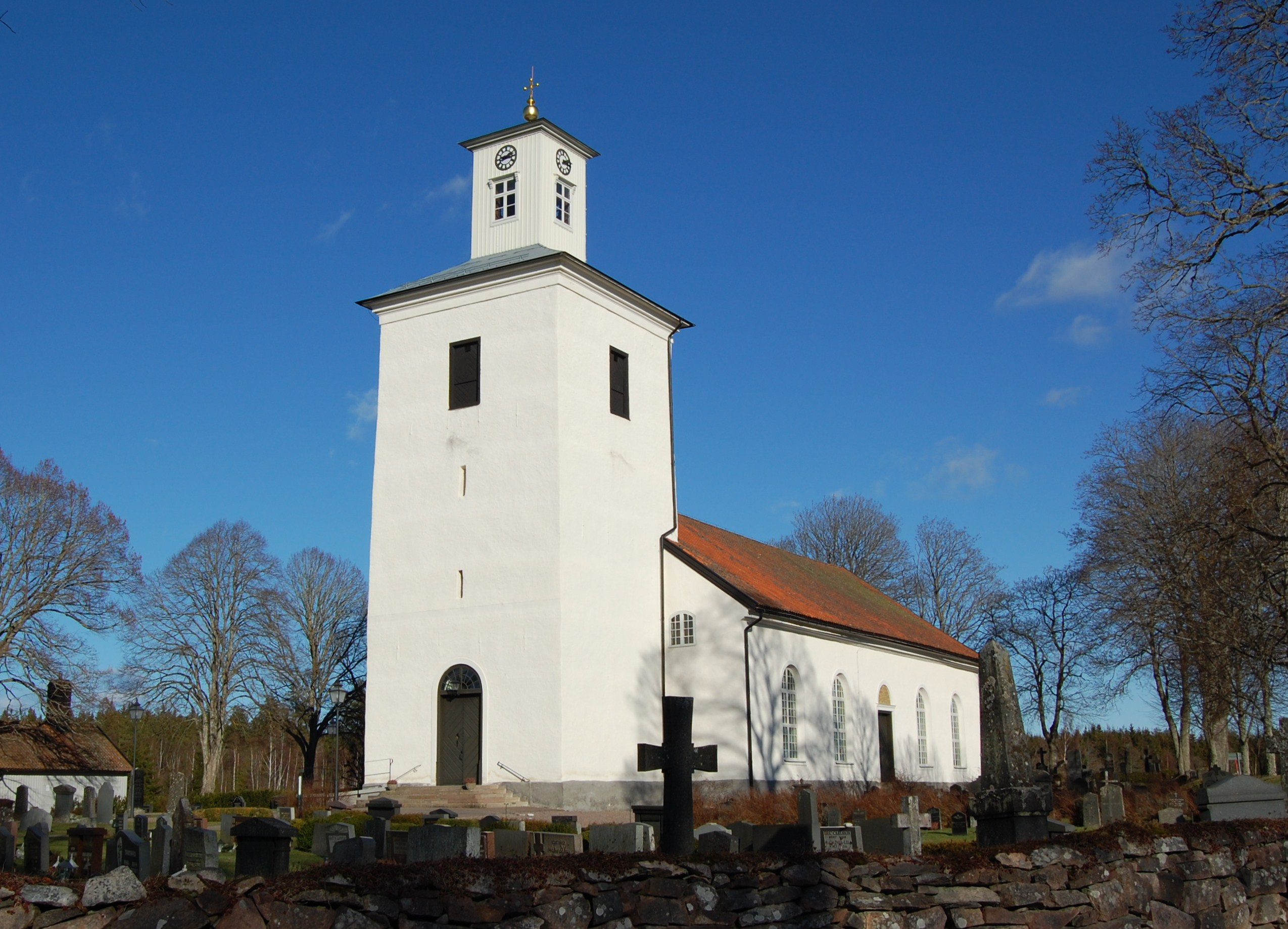 Kristvalla church.The Church was built in neo-classical style, designed by Gustaf a. Pfeffer and inaugurated on May 17 1795 of Kalmar diocese Bishop Martin Georg Wallenstråle.